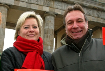 c